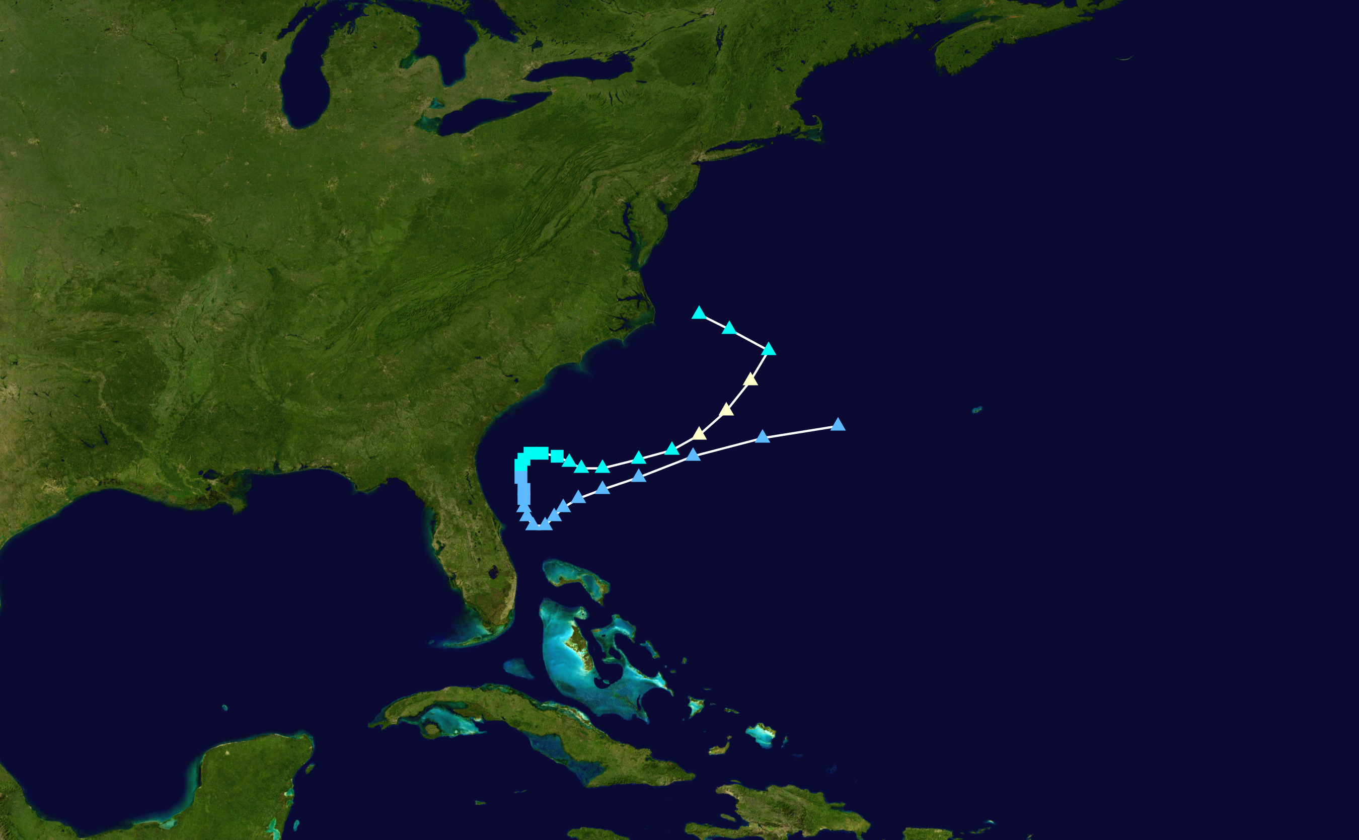 Track map of Subtropical Storm Andrea of the 2007 Atlantic hurricane season. The points show the location of the storm at 6-hour intervals. The colour represents the storm's maximum sustained wind speeds as classified in the Saffir–Simpson scale (see below), and the shape of the data points represent the nature of the storm, according to the legend below. Saffir–Simpson scale Tropical depression≤38 mph≤62 km/h Category 3111–129 mph178–208 km/h Tropical storm39–73 mph63–118 km/h Category 4130–156 mph209–251 km/h Category 174–95 mph119–153 km/h Category 5≥157 mph≥252 km/h Category 296–110 mph154–177 km/h Unknown Storm type Tropical cyclone Subtropical cyclone Extratropical cyclone / Remnant low / Tropical disturbance / Monsoon depression